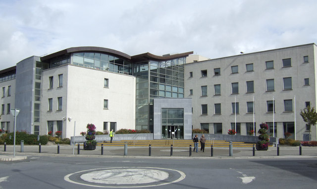 Administrative buildings, Dungarvan, Co. Waterford Dungarvan is the administrative town for County Waterford, and these are the offices. The town is more central to the county than Waterford City.